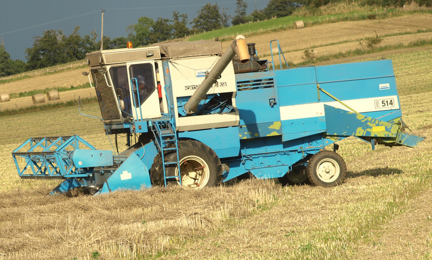 A Fortschritt E 514 combine harvester working on the south slopes of the Firth of Tay near Ballincreich.